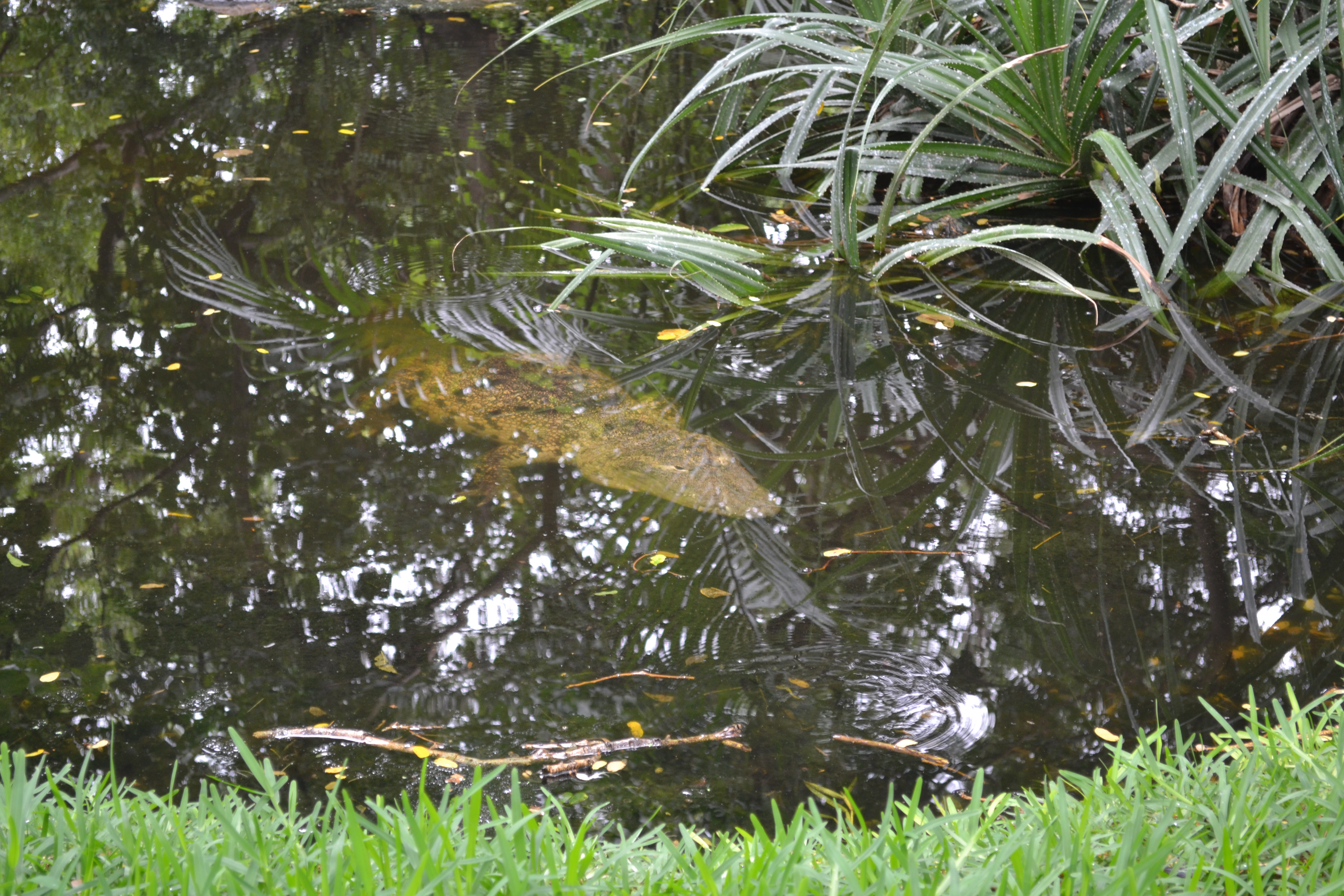 A Morelet's crocodile lurking under the placid waters of a pond.Crocodile are ambush predators which wait for unsuspecting prey to come to them.